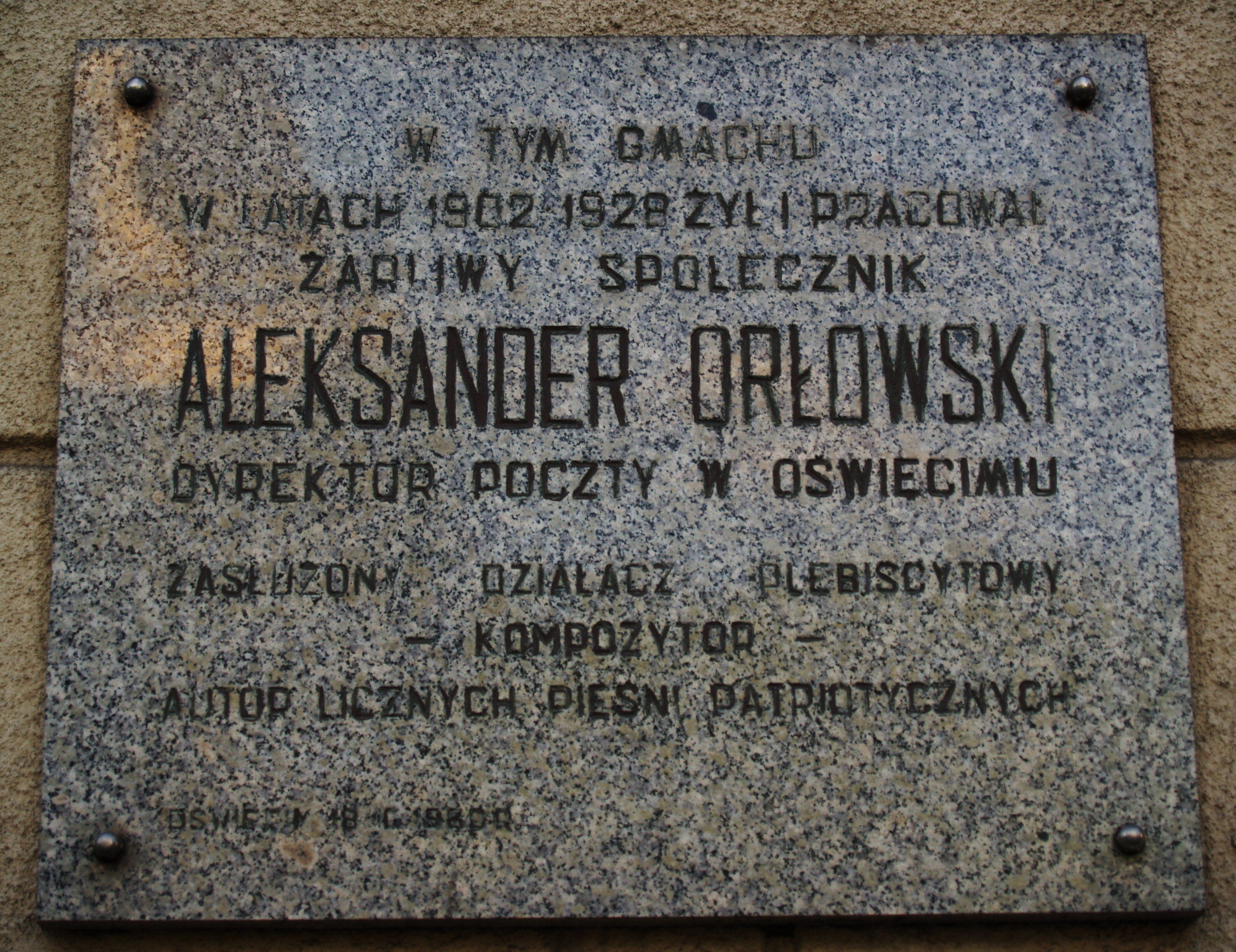 A plaque on the building of the Main Post Office dedicated to Aleksander Orłowski.